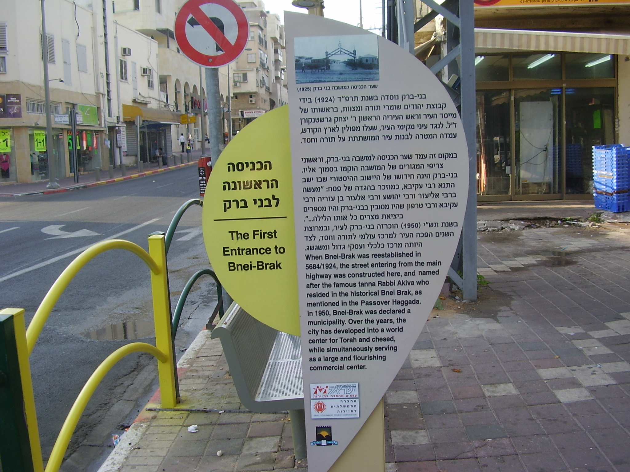 first entrance to bnei brak, israel הכניסה הראשונה לבני ברק, רחוב רבי עקיבא פינת דרך ז'בוטינסקי